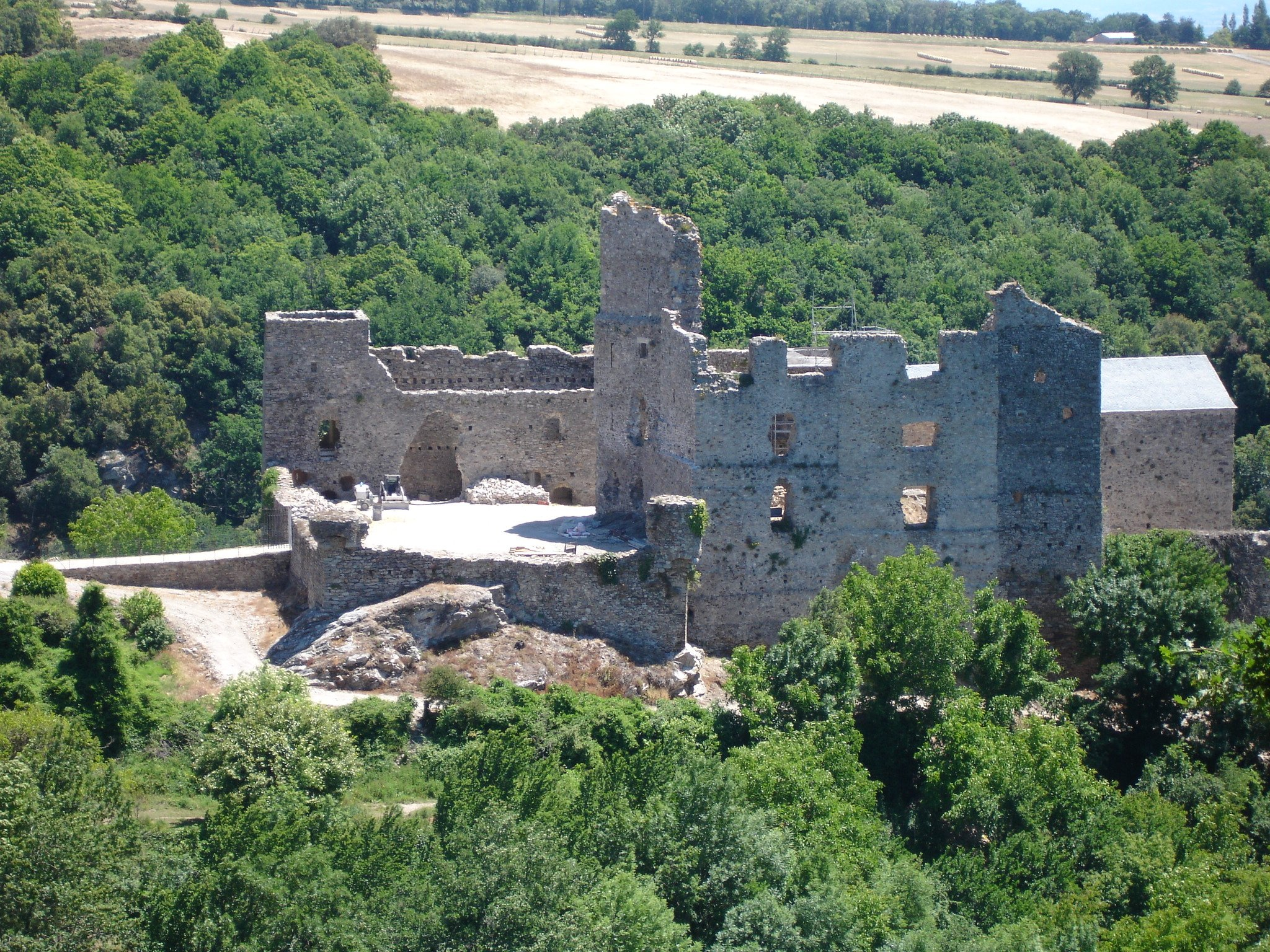 France, Aude, Saissac castle